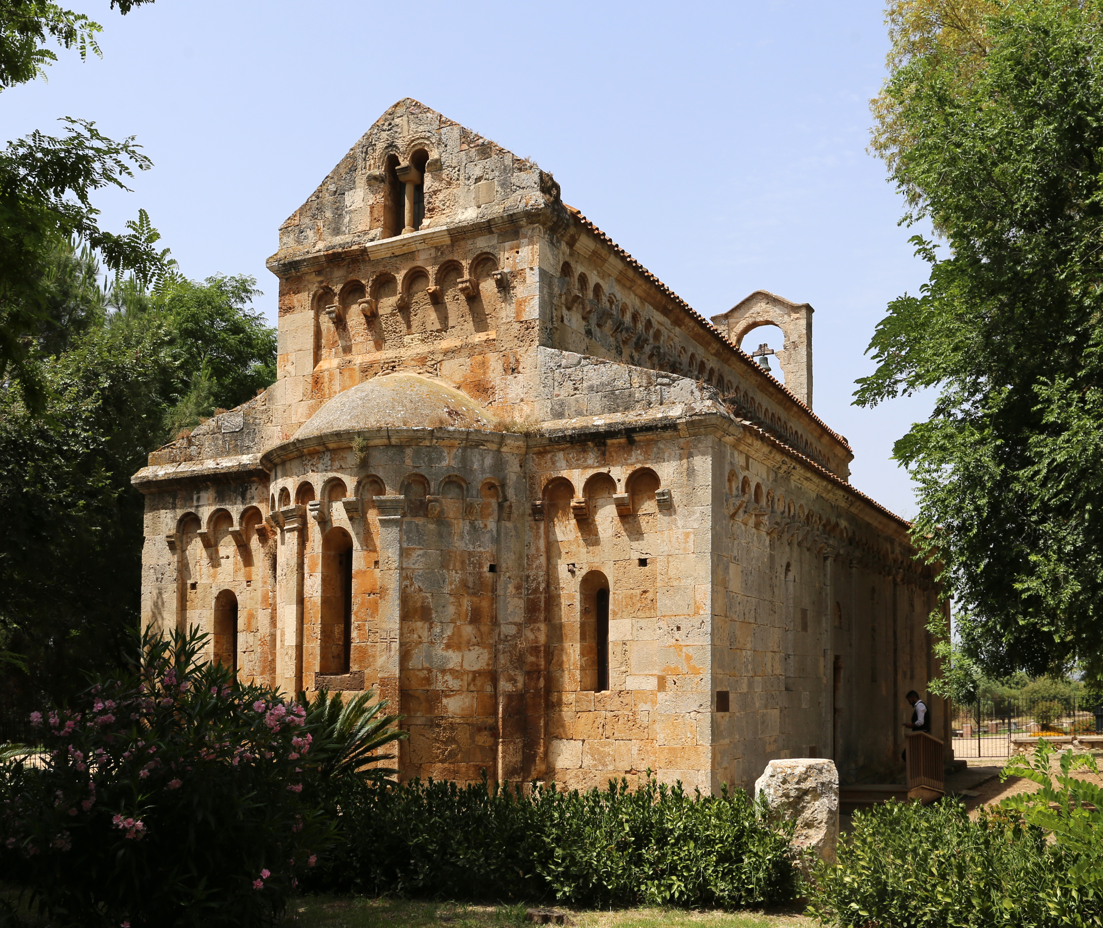 Santa Maria (Uta)